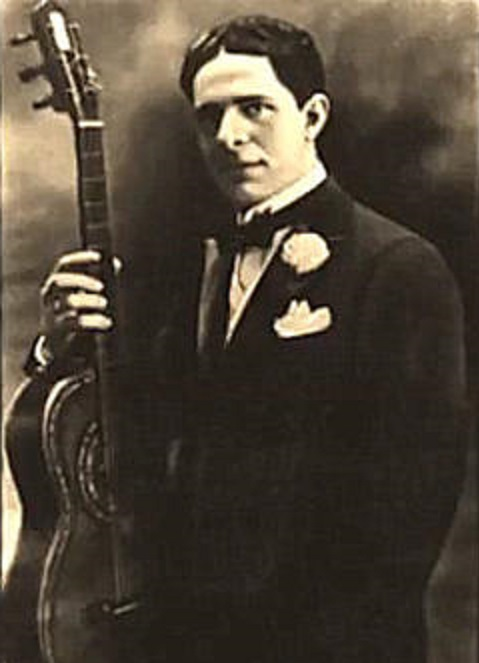 Américo Jacomino (canhoto) 1920s